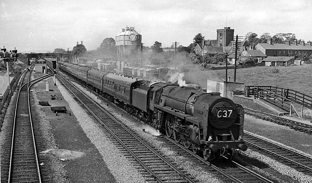 North - West express at Magor. View westward from bridge by Magor station on the ex-Great Western (London/Swindon/Gloucester/Bristol - Newport, Cardiff etc.) main line, with an express on the Up line that has come from Liverpool and Manchester, via Shrewsbury, Hereford and the Maindee Junctions east of Newport, to Bristol and Plymouth. The locomotive is BR 'Britannia' 4-6-2 No. 70019 'Lightning'. Behind is Magor Church and village.